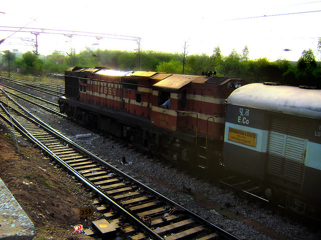 Janmabhoomi EXP at Moula Ali, Hyderabad